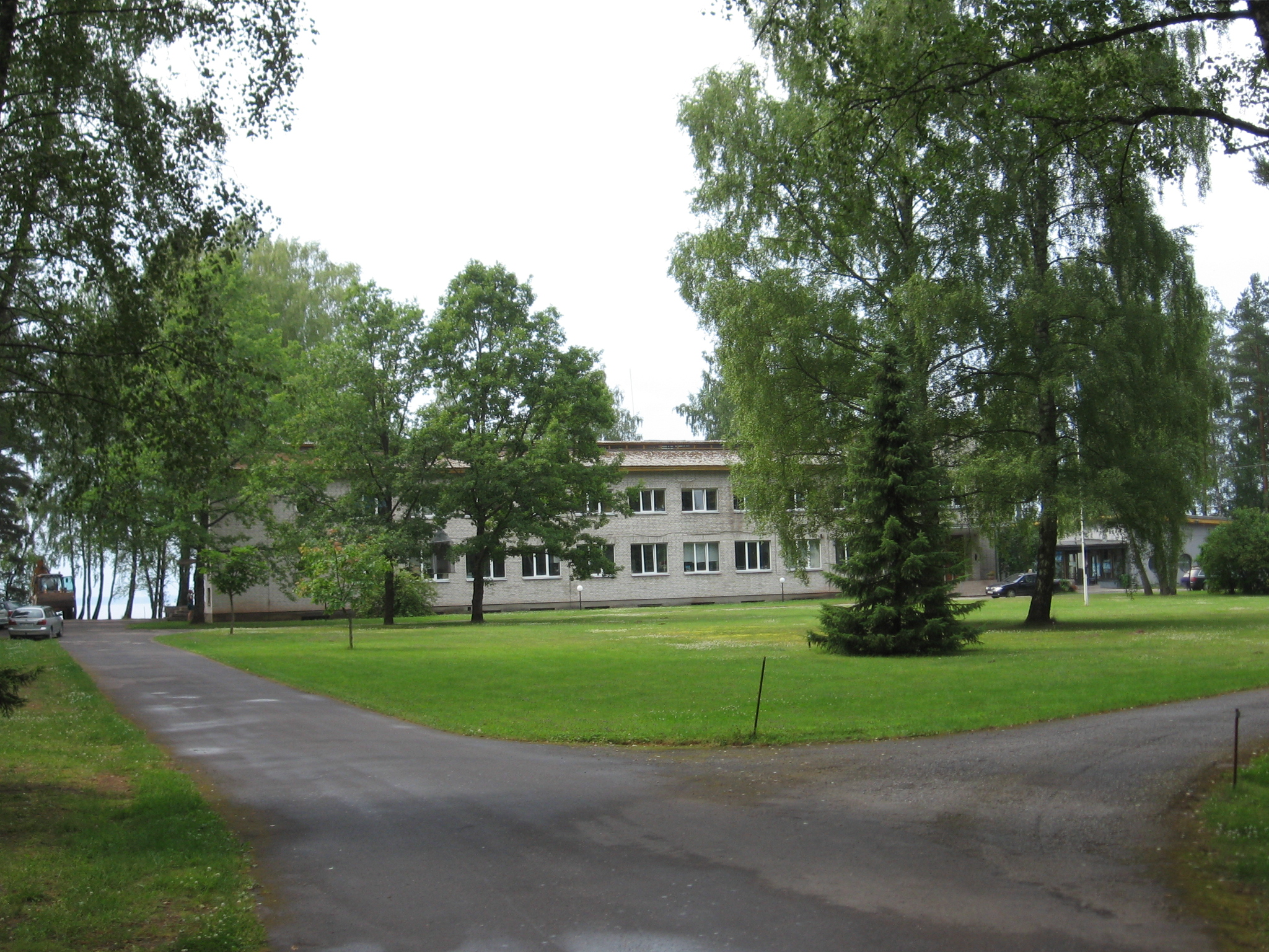 Võrtsjärve Limnology Center (Estonia)